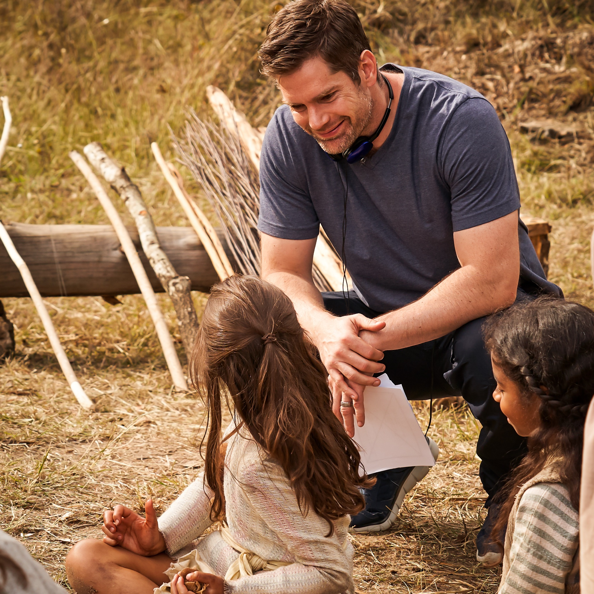 Dallas Jenkins directs episode 3, season 1 of television series, The Chosen.